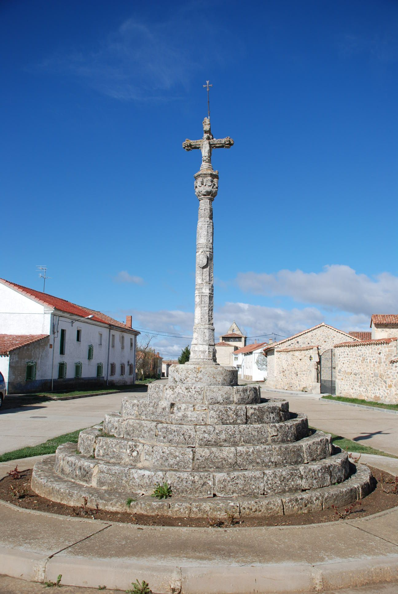 Municipal Cross in Traspeña de la Peña (Palencia, Castile and León). One of the most beautiful of all Castile. Is located on a pedestal of seven steps circular and decreasing, raising a mast embellished with multiple Gothic, drawings to finish with a thick capital where carved various figures of Saints. At its peak, the cross is the Virgin on the one hand, and the crucified on the other. This religious sign, recently restored, thrilled by its beauty and the grandeur of the place is located. It is funded work. Such a Portillo carved it in the 15th century.